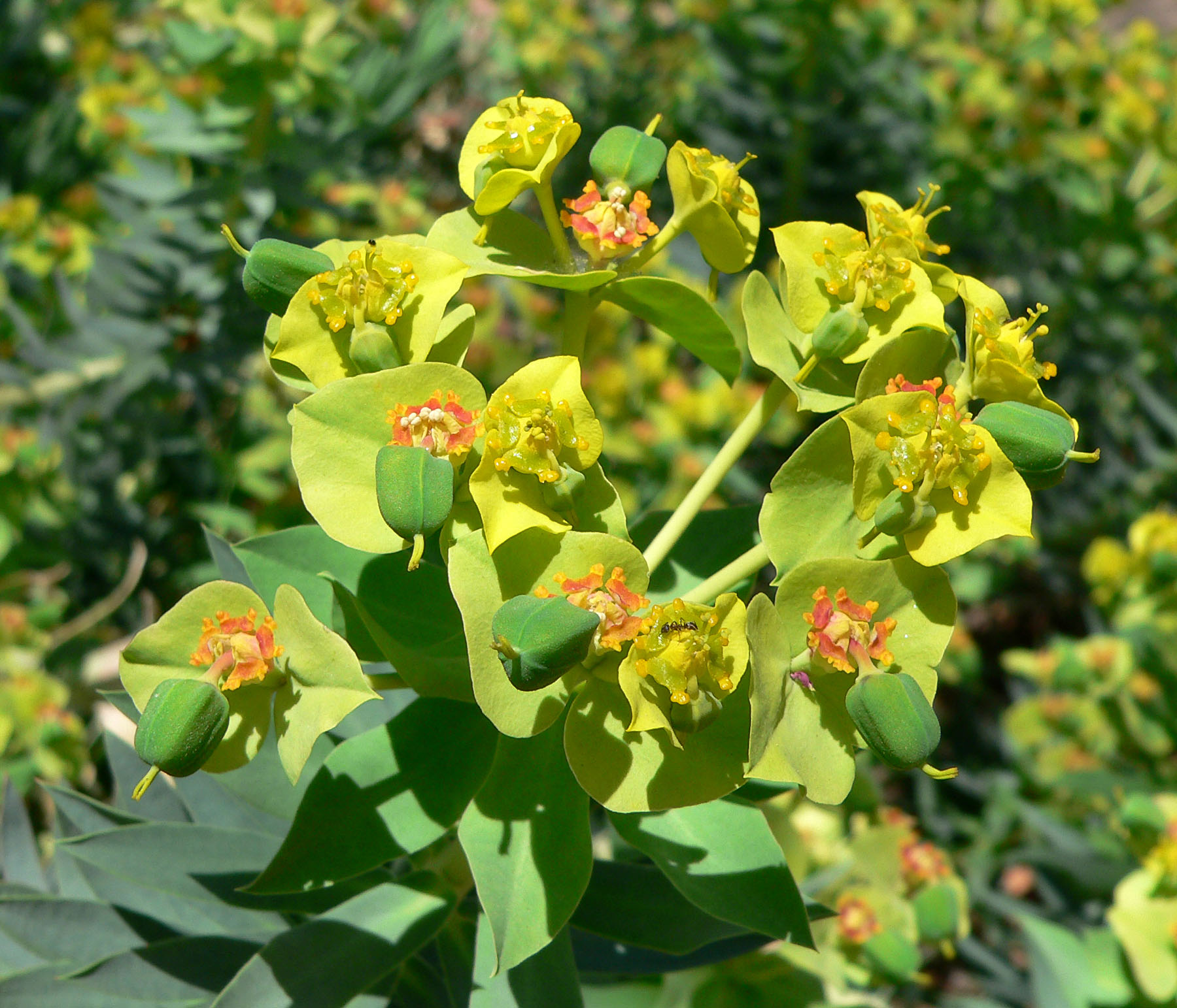 Euphorbia rigida at the Springs Preserve garden, Las Vegas, Nevada